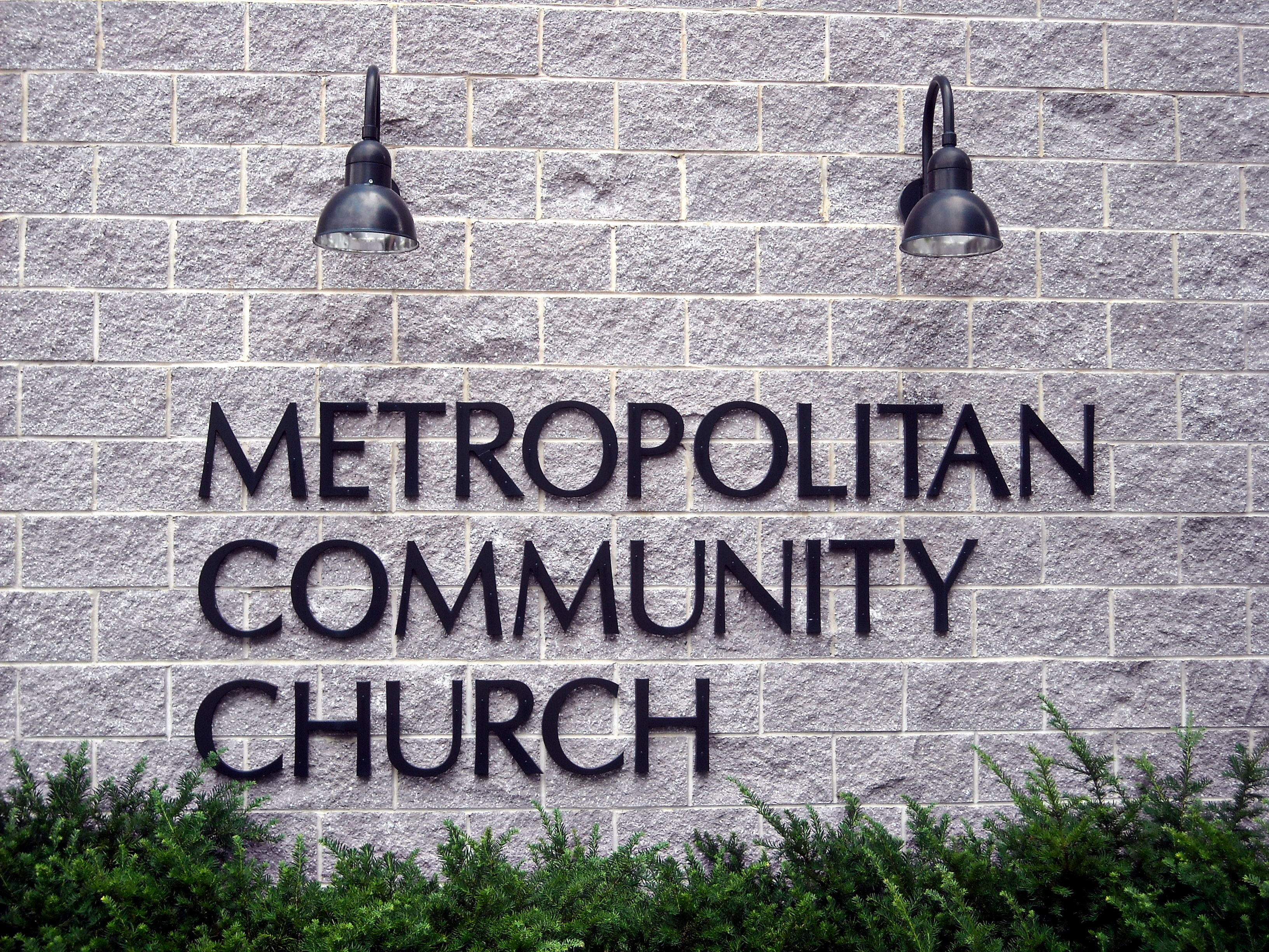 Metropolitan Community Church of Washington, D.C., (MCCDC) located at 474 Ridge Street NW in the Mount Vernon Square neighborhood. The MCC congregation was founded in 1970. Their current church building was constructed in 1992.